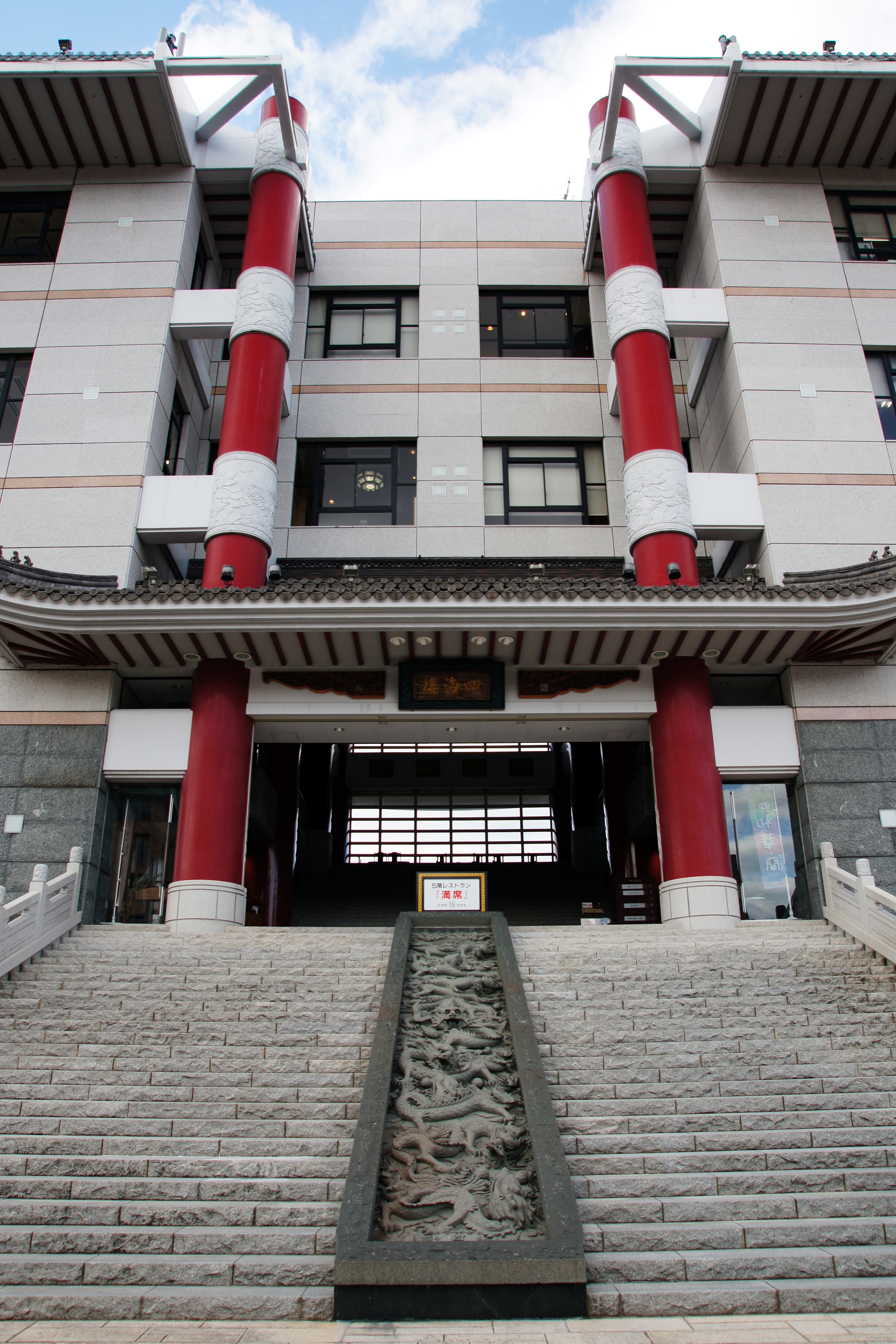 Chinese restaurant "Shikairo" in Nagasaki, Nagasaki prefecture, Japan